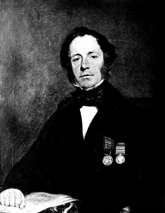 Image from The diary of a cavalry officer in the Peninsular War and Waterloo Campaign